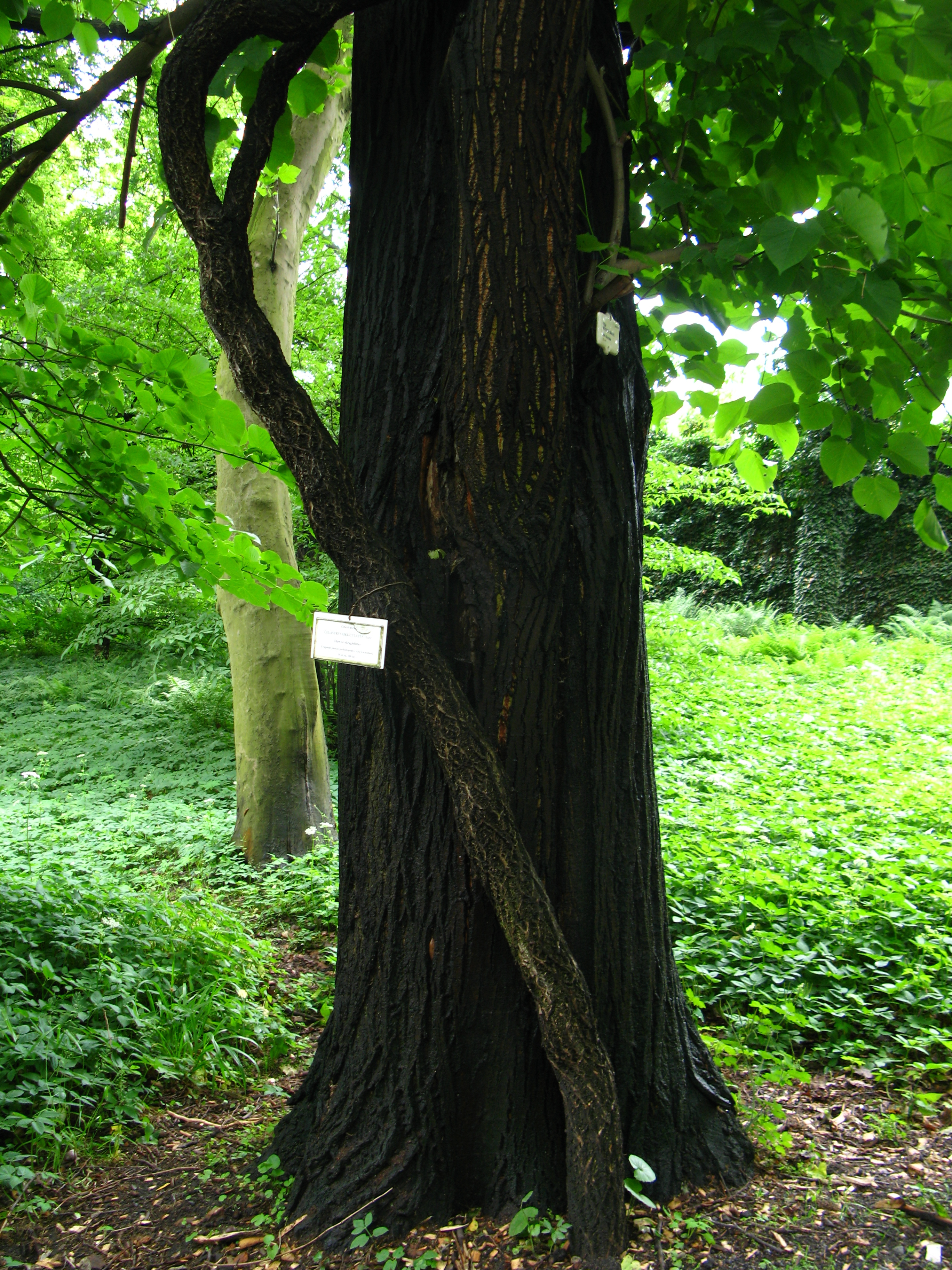 ~100 years old dead Celastrus orbiculatus on Tilia x moltkei in Botanical Garden in Kraków